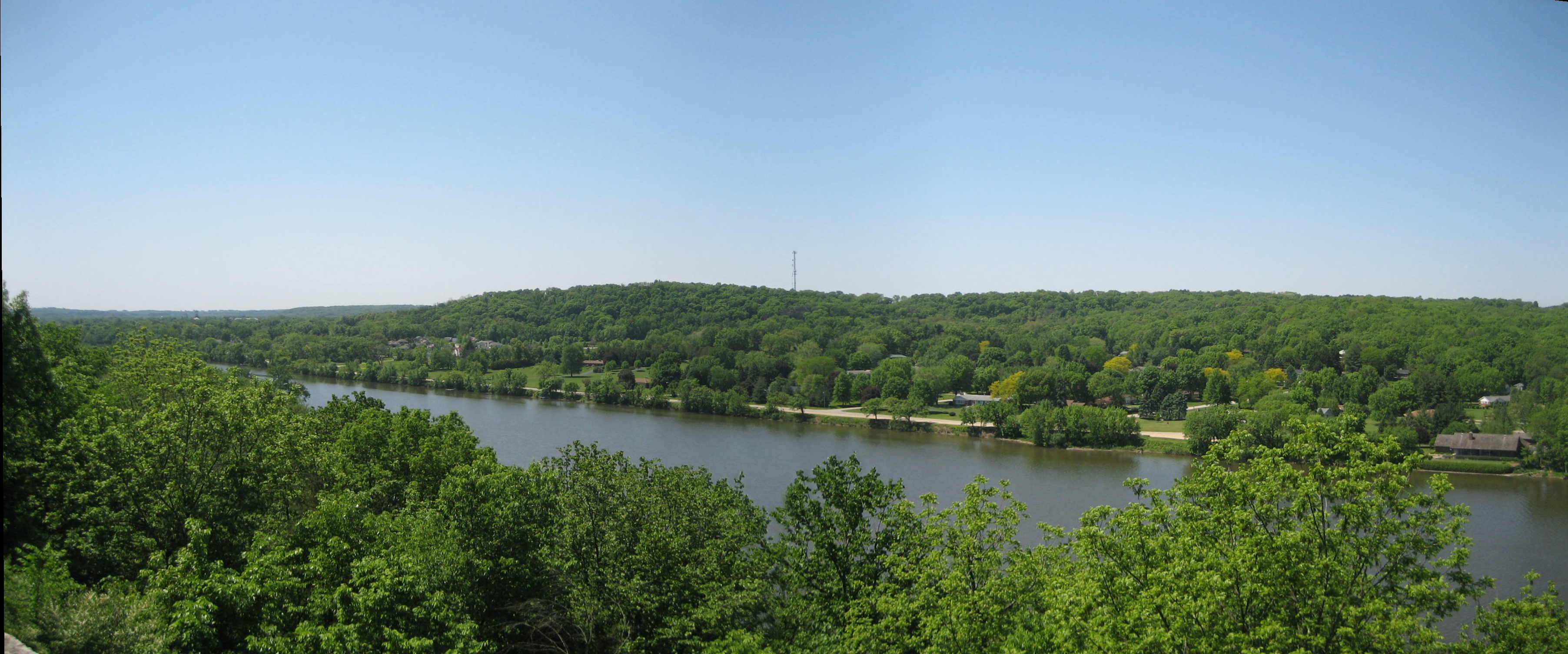 Lowden State Park, near Oregon, Illinois, USA. Scenic overlook above Rock River from Eagle's Nest Bluff.